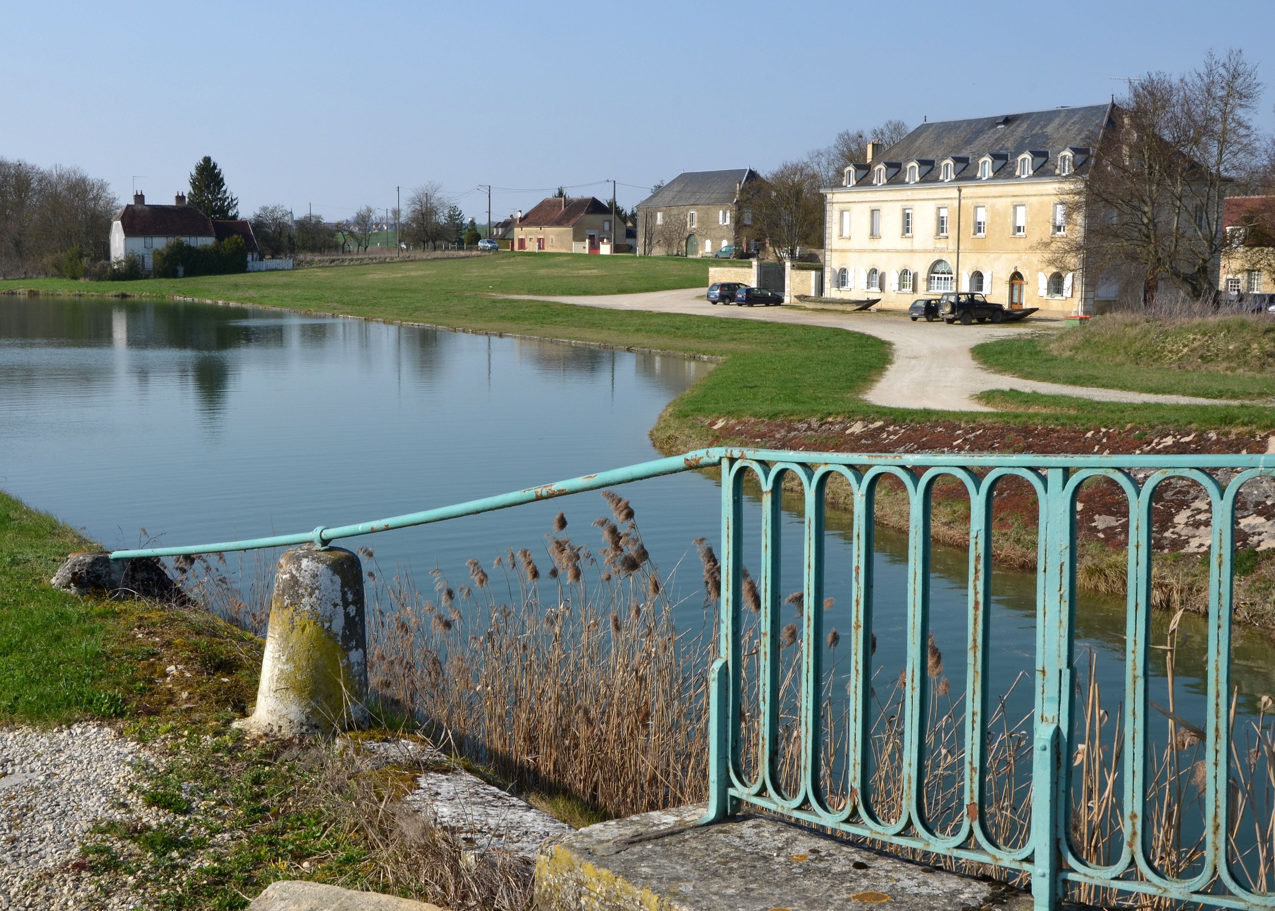 Canal of Burgundy near Marolles-sous-Lignières, Bourgogne, France